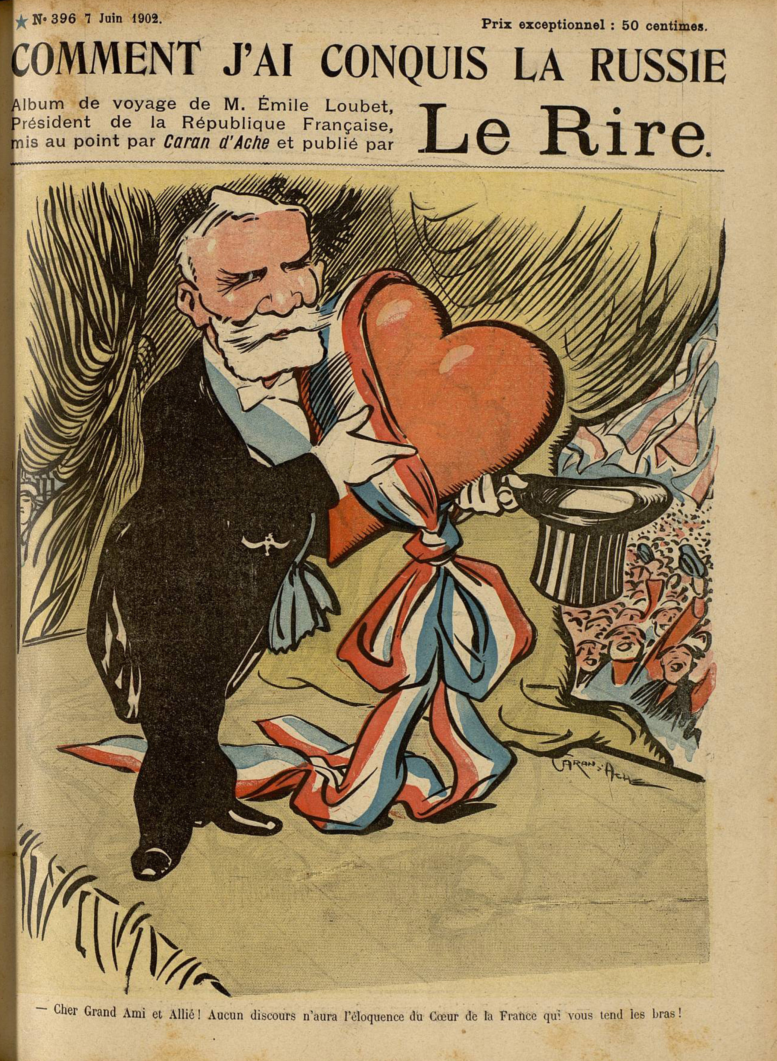 Cover of a special issue of "Le Rire" on president Loubet's trip to Russia